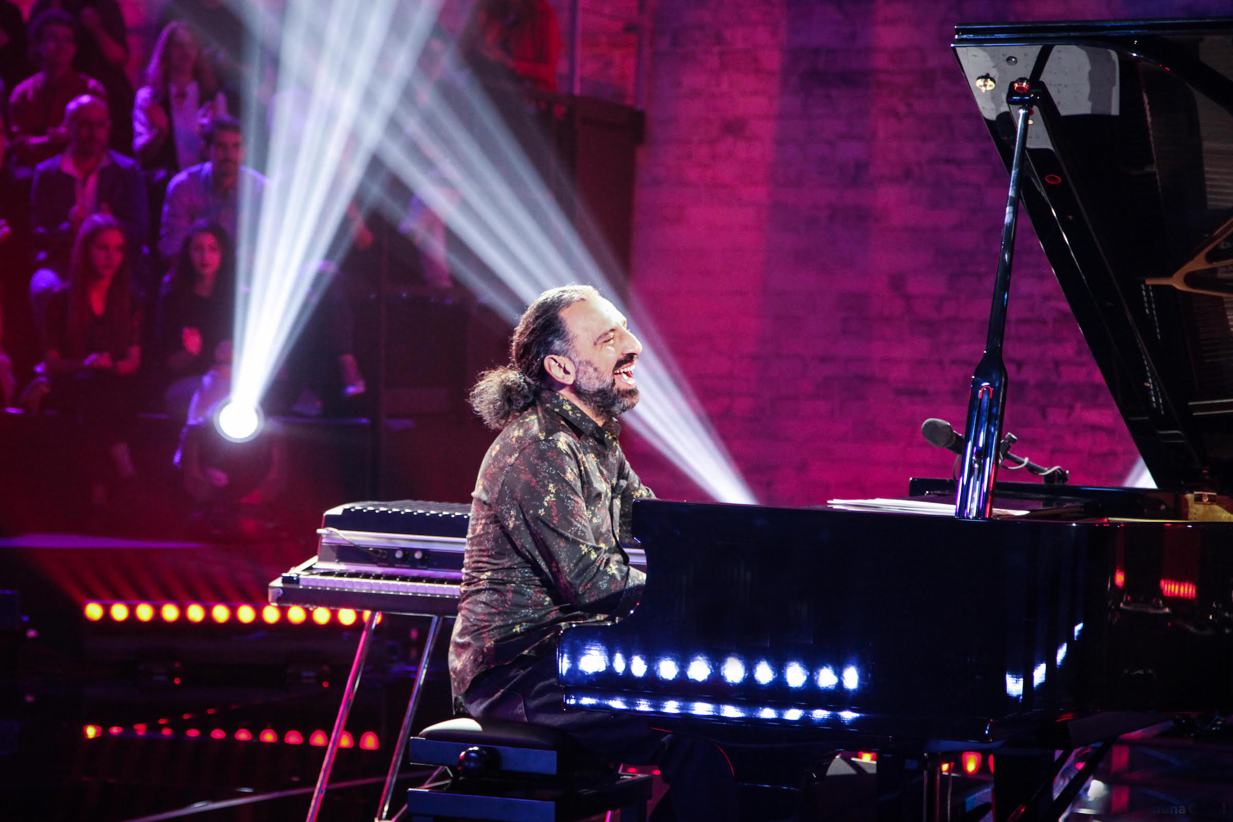 Stefano Bollani playing piano in the TV show ‘L'importante è avere un piano’ (2016)